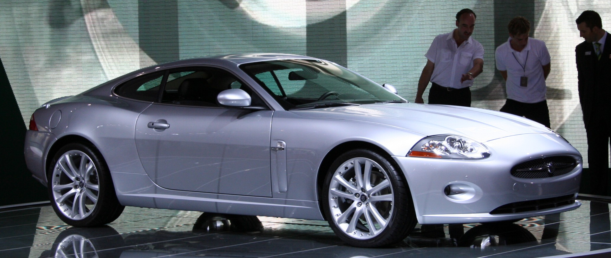 Jaguar XK on IAA 2005 Photo taken by Ygrek, 17th September 2005.